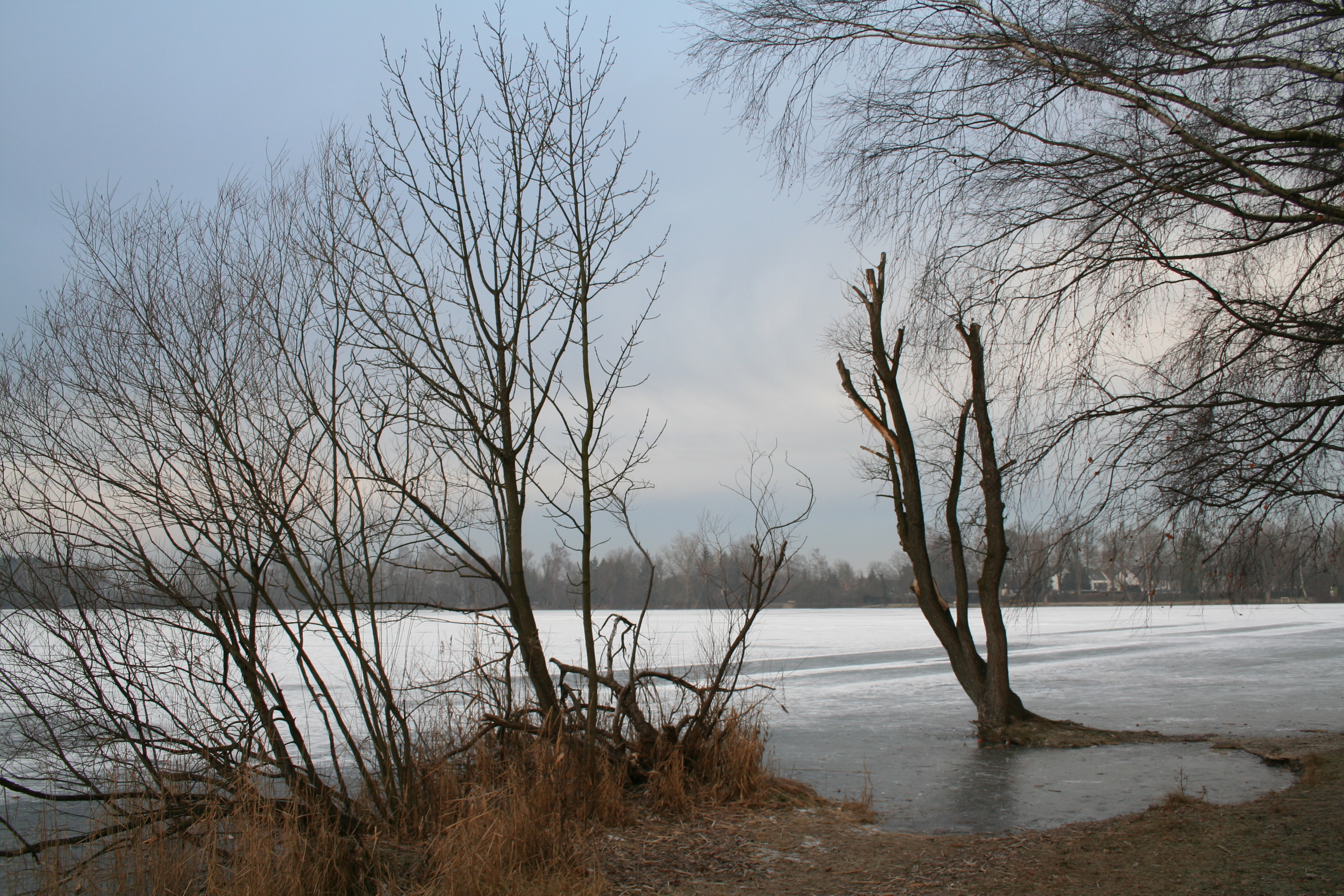 Olchinger See in winter